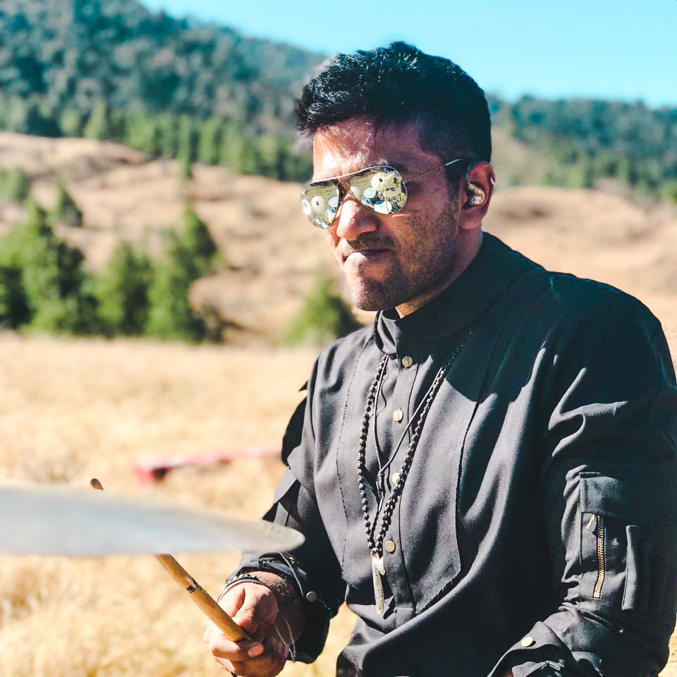 Indian musician Srijan Mahajan